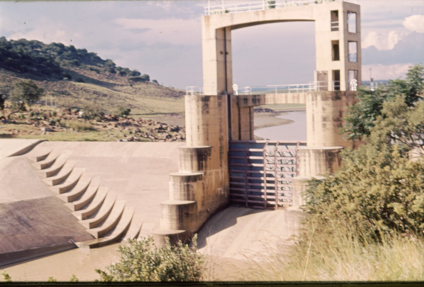 Windsor Dam outside Ladysmith, KwaZulu-Natal Images is scanned from photo negative. Date of photo is unknown but probably taken sometime during the late 1970s or early 1980s